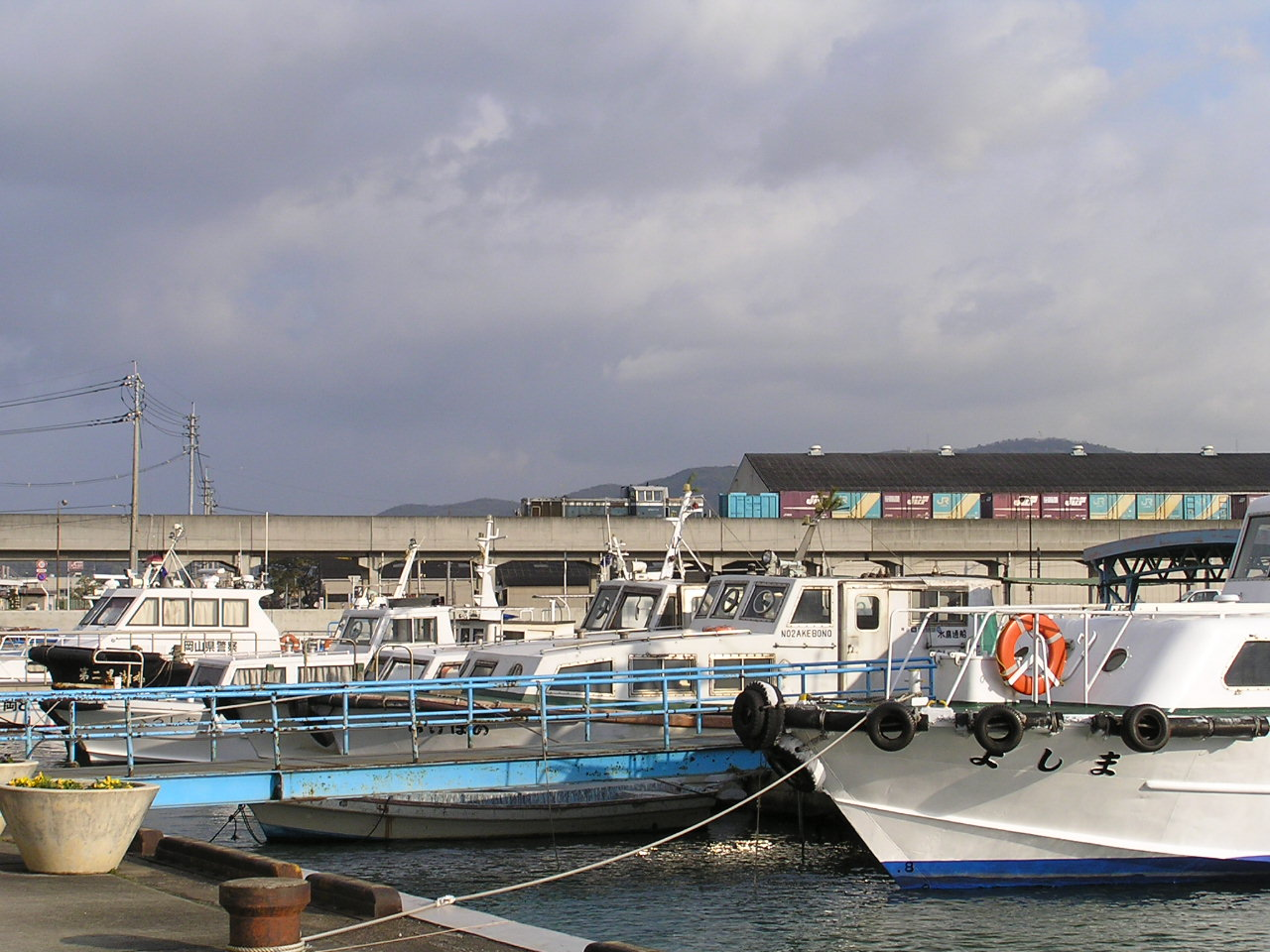 Merchandise train of Mizushima seaside railway